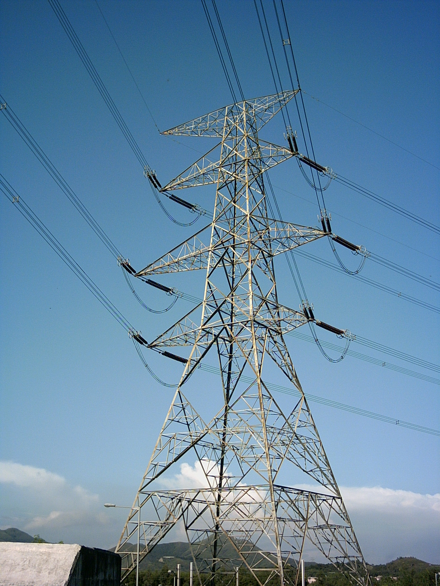 A pylon in Sheung Shui, Hong Kong.